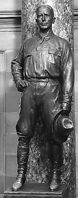 John Campbell Greenway, bronze by Gutzon Borglum, National Statuary Hall Copyright: Public domain US Government work.